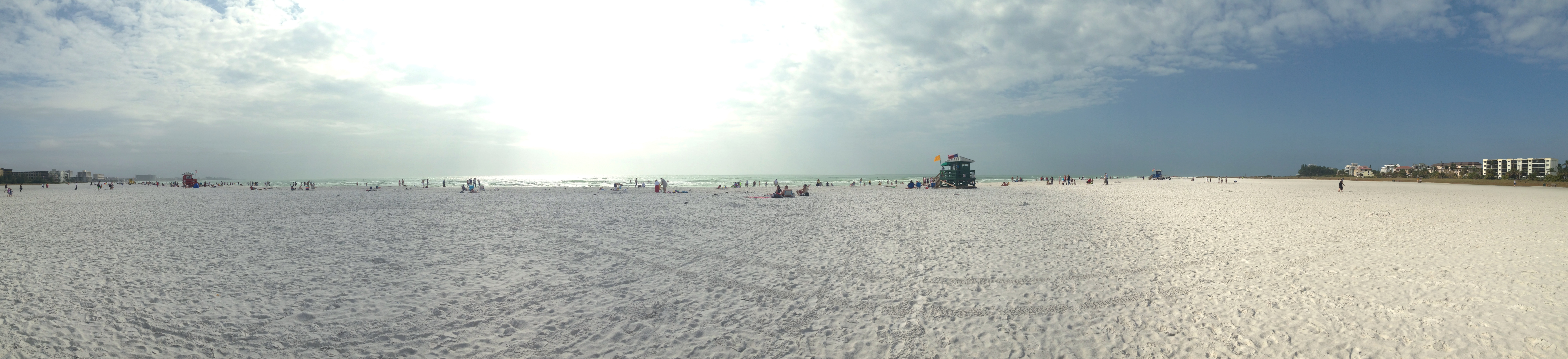 A panoramic photograph of Siesta Beach taken on 29 Dec 2012. The weather was mildly overcast but there were swimmers, surfers, and sunbathers nonethess. The photo illustrates the white sand and the expansive width that characterize Siesta Beach. Lifeguard towers are visible.